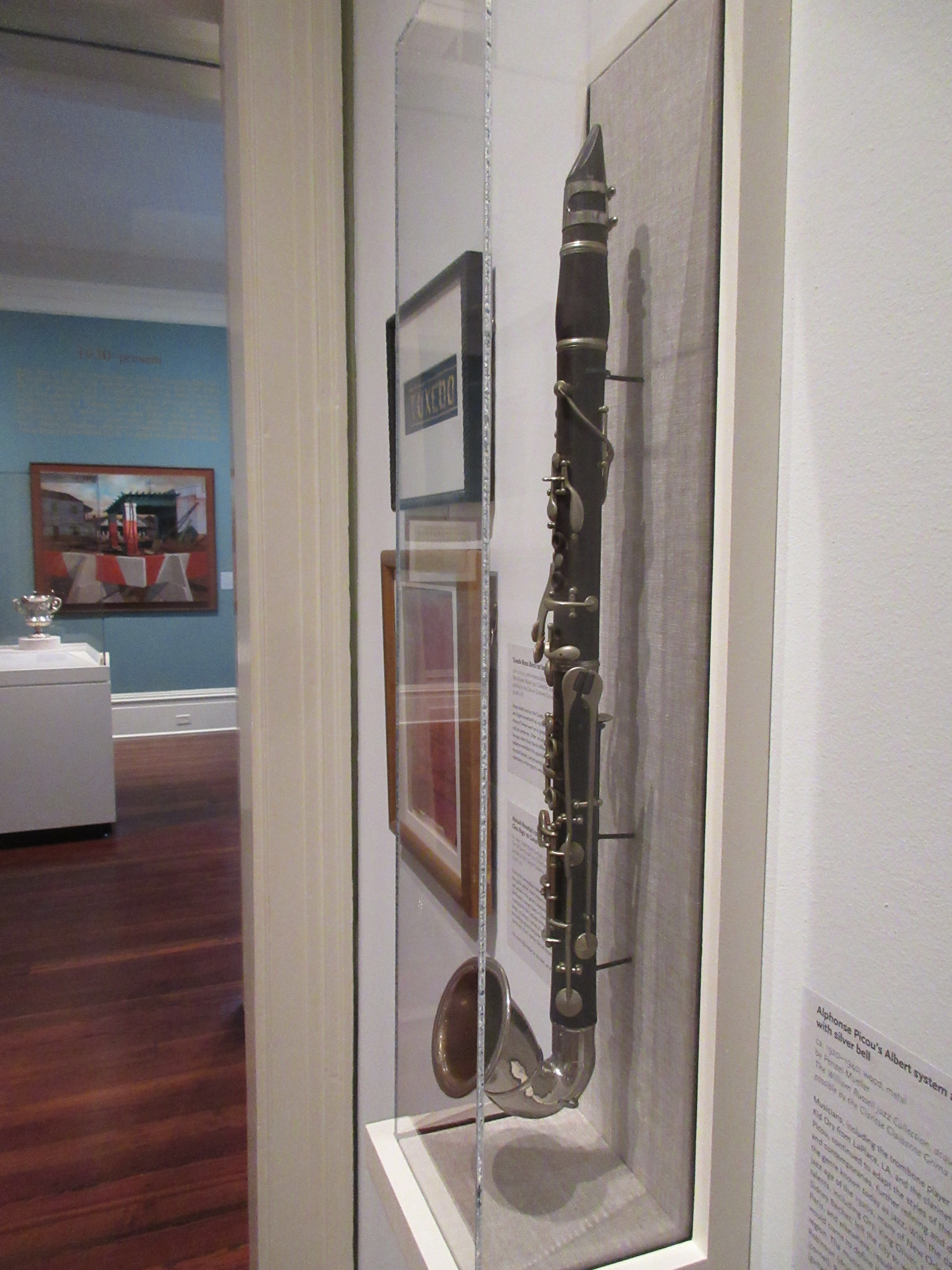 Albert system Penzel-Mueller alto clarinet with silver bell formerly owned and played by Alphonse Picou, on display at the Historic New Orleans Collection.